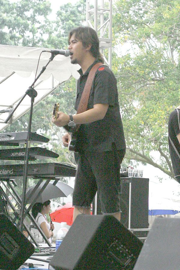 Dewa Concert in Fort Canning Singapore, 27 Feb 2005